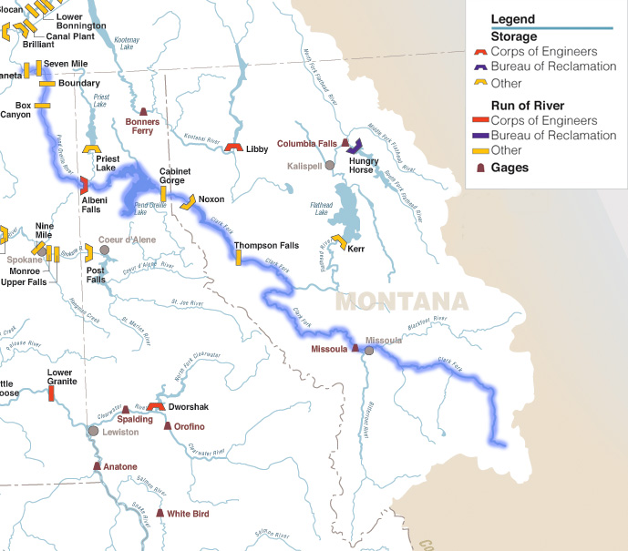 Maps of the Pend Oreille River, its tributary the Clark Fork River, and dams on them — in Montana, Idaho, and Washington (state). The Pend Oreille River is a tributary of the Columbia River, and it and the Clark Fork River are within the Columbia River Basin. Original caption The Columbia River carved the Interior Columbia River Basin from the landscape of seven Western states and two Canadian provinces. The river itself flows from its headwaters in British Columbia, Canada through only two states, forming part of the Washington-Oregon border, the vast Interior Columbia River Basin is defined by the area drained by the river and its many tributaries. This 58-million-hectare area (about the size of France) extends roughly from the crest of the Cascade Mountains of Oregon and Washington east through Idaho to the Continental Divide in the Rocky Mountains of Montana and Wyoming, and from the headwaters of the Columbia River in Canada to the high desert of northern Nevada and northwestern Utah.